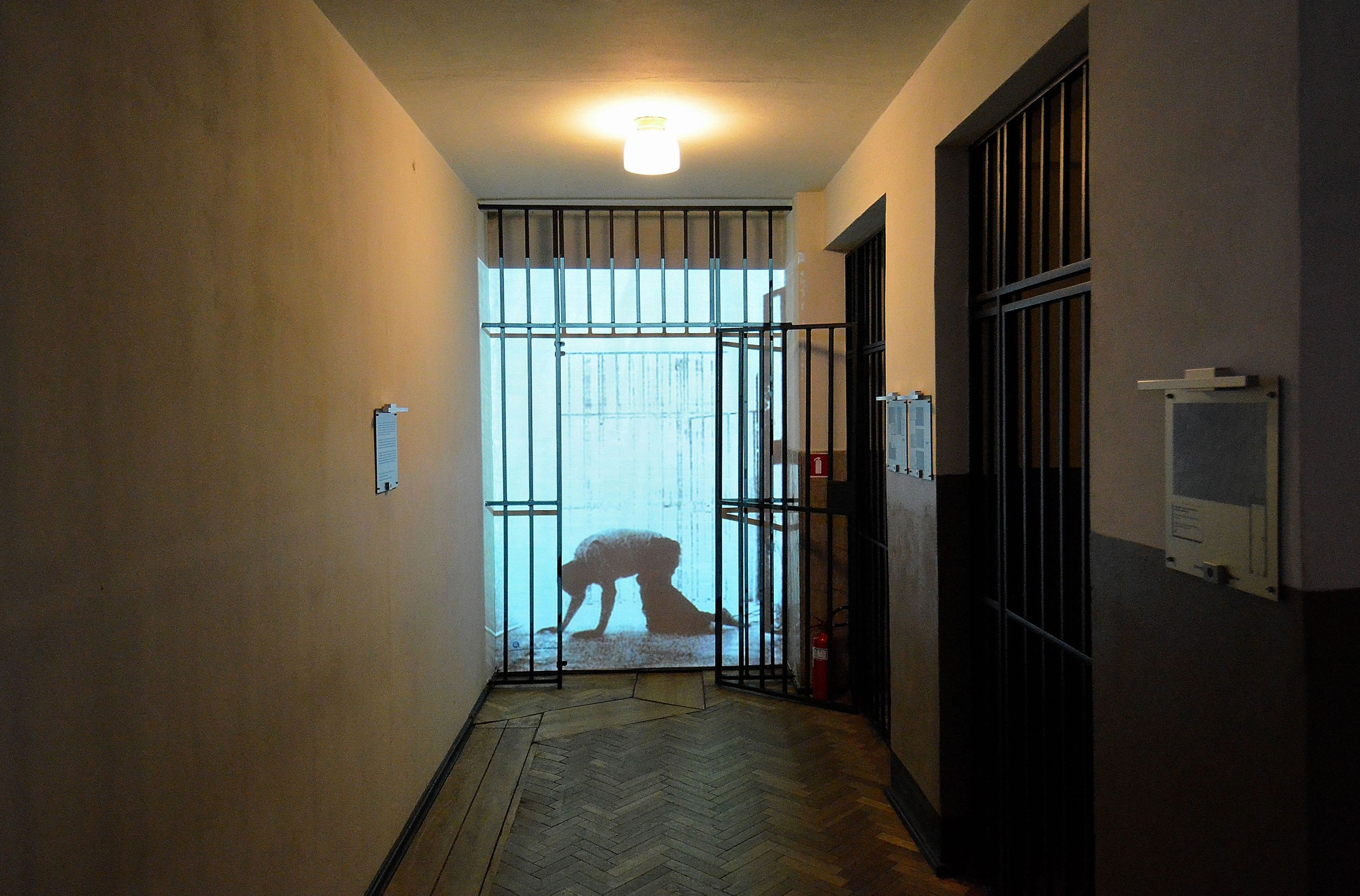 Mausoleum of Struggle and Martyrdom in Warsaw